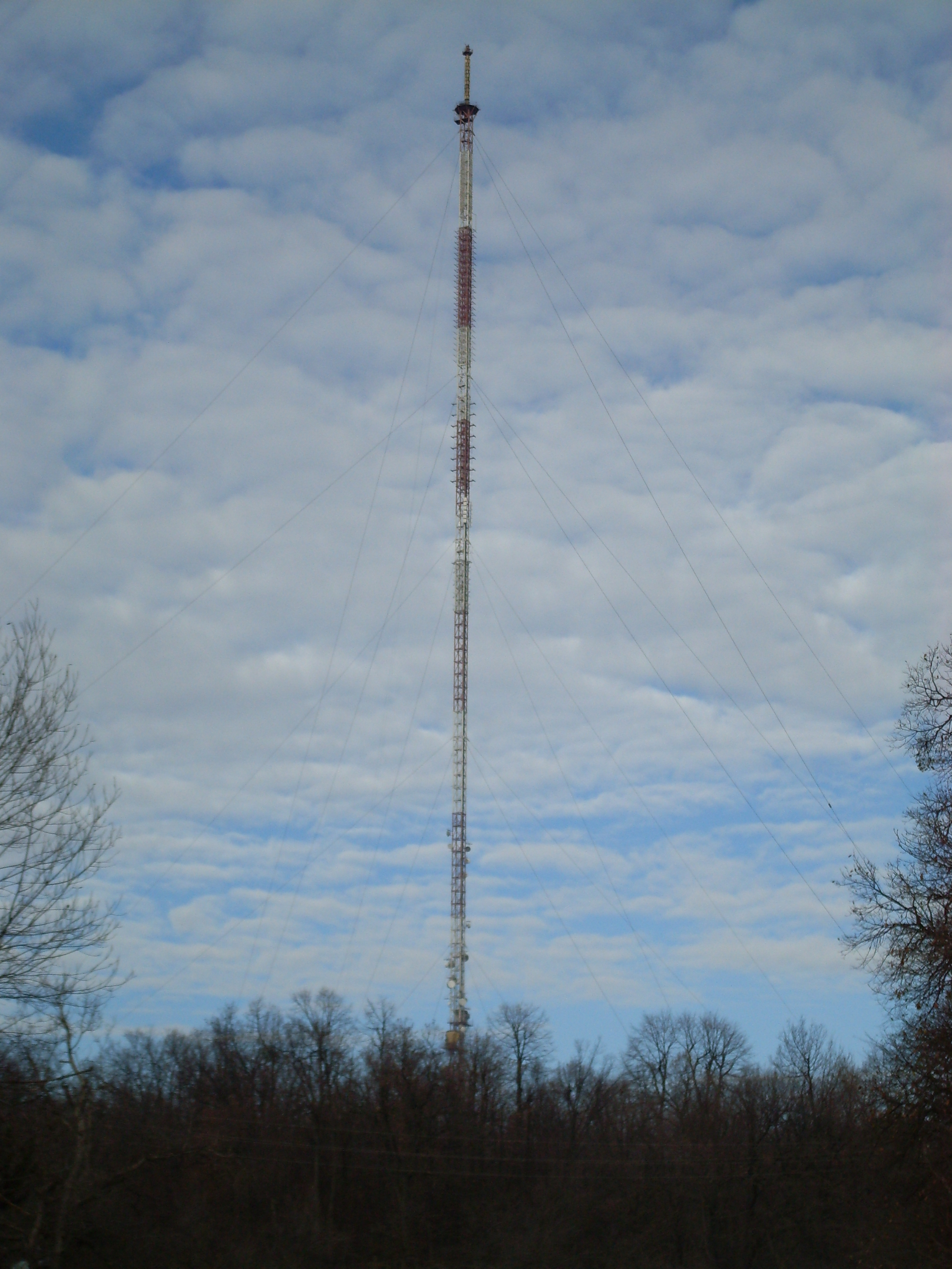 A view of Străşeni TV Mast